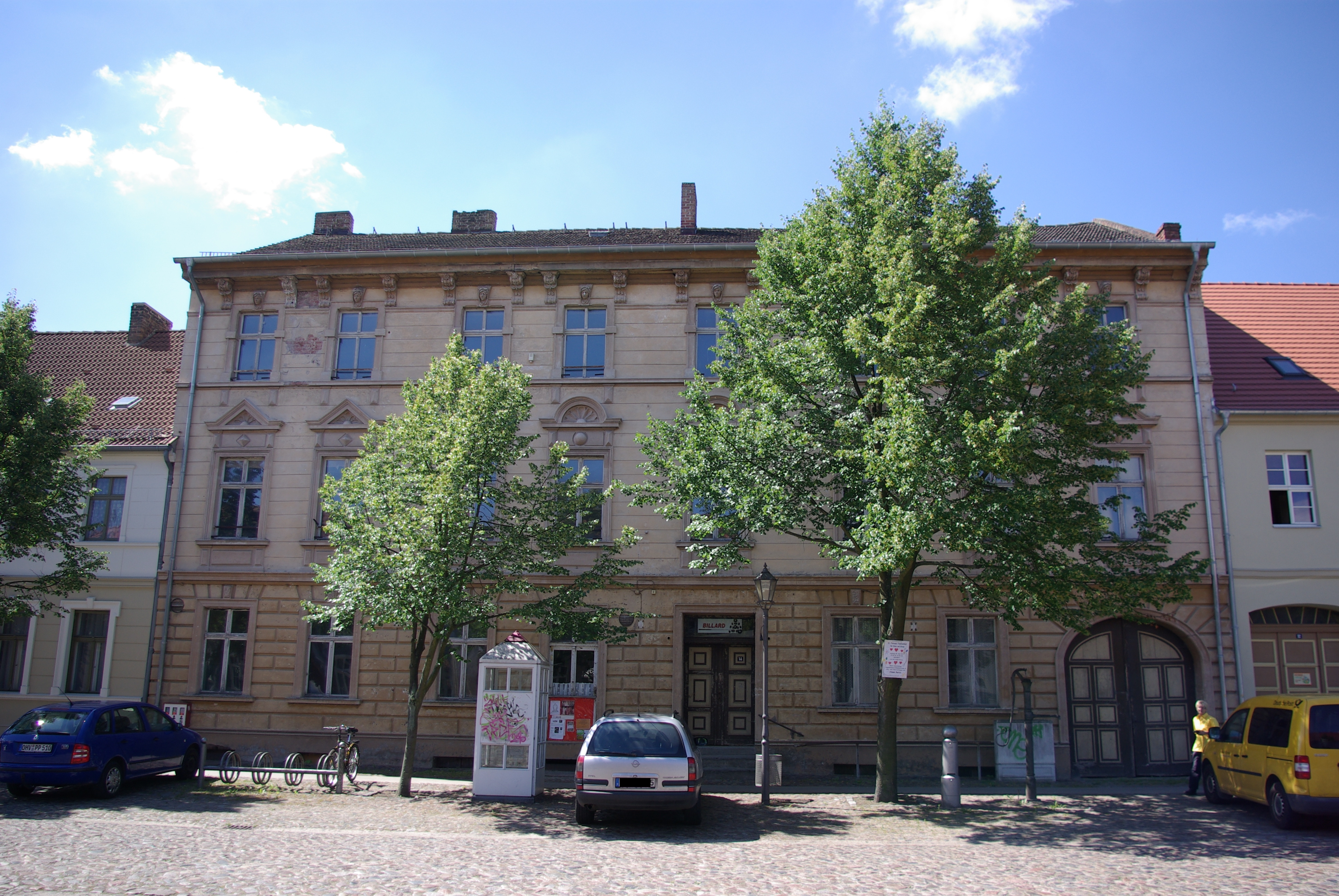 Kremmen in Brandenburg. The House Am Markt 14 is a listed building.